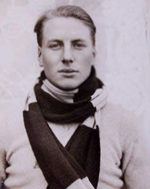 Andrew Irvine (1902-1924) during his college years at Merton (Oxford)